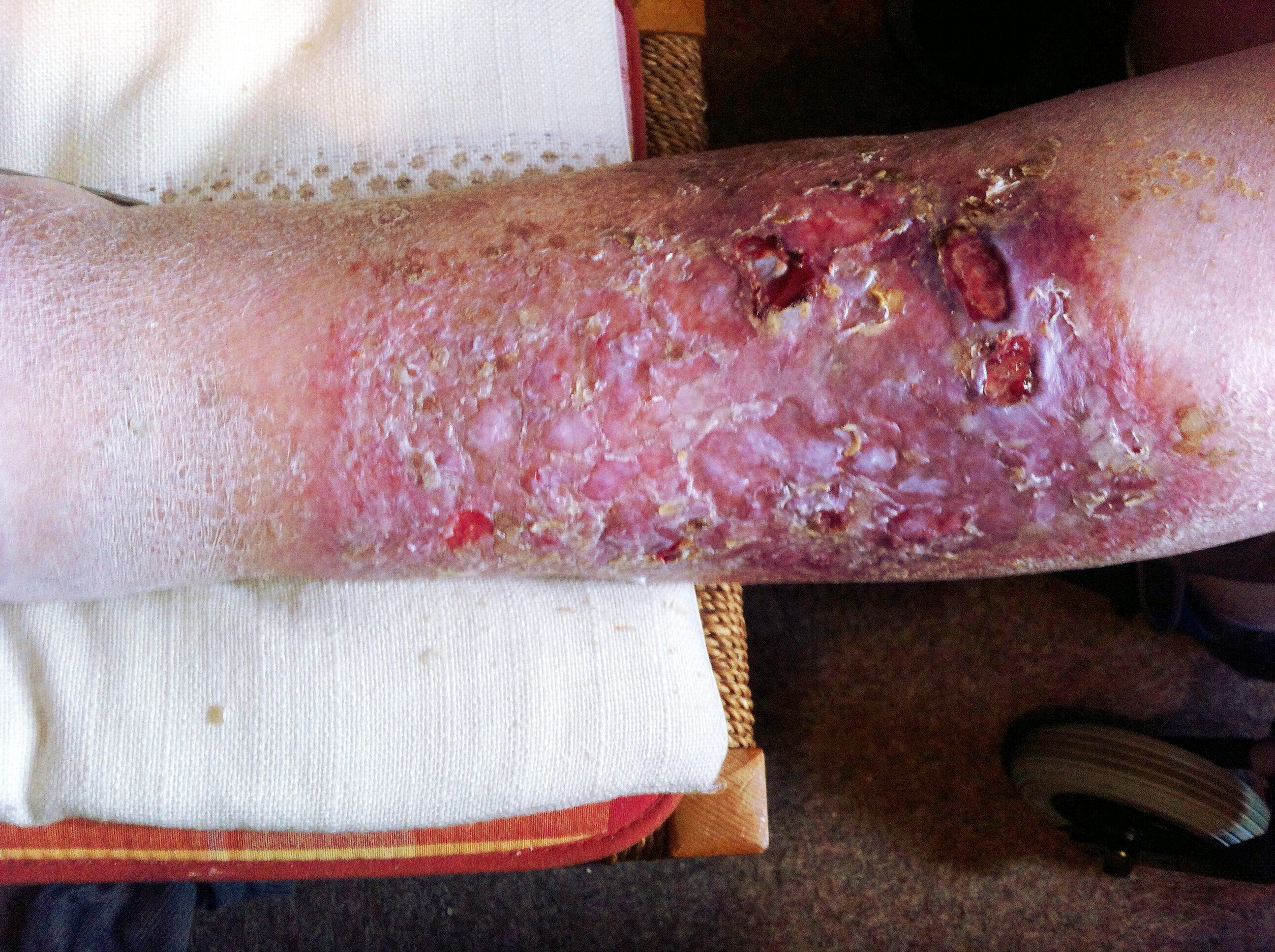 Chronic venous insufficiency Stadium (III)